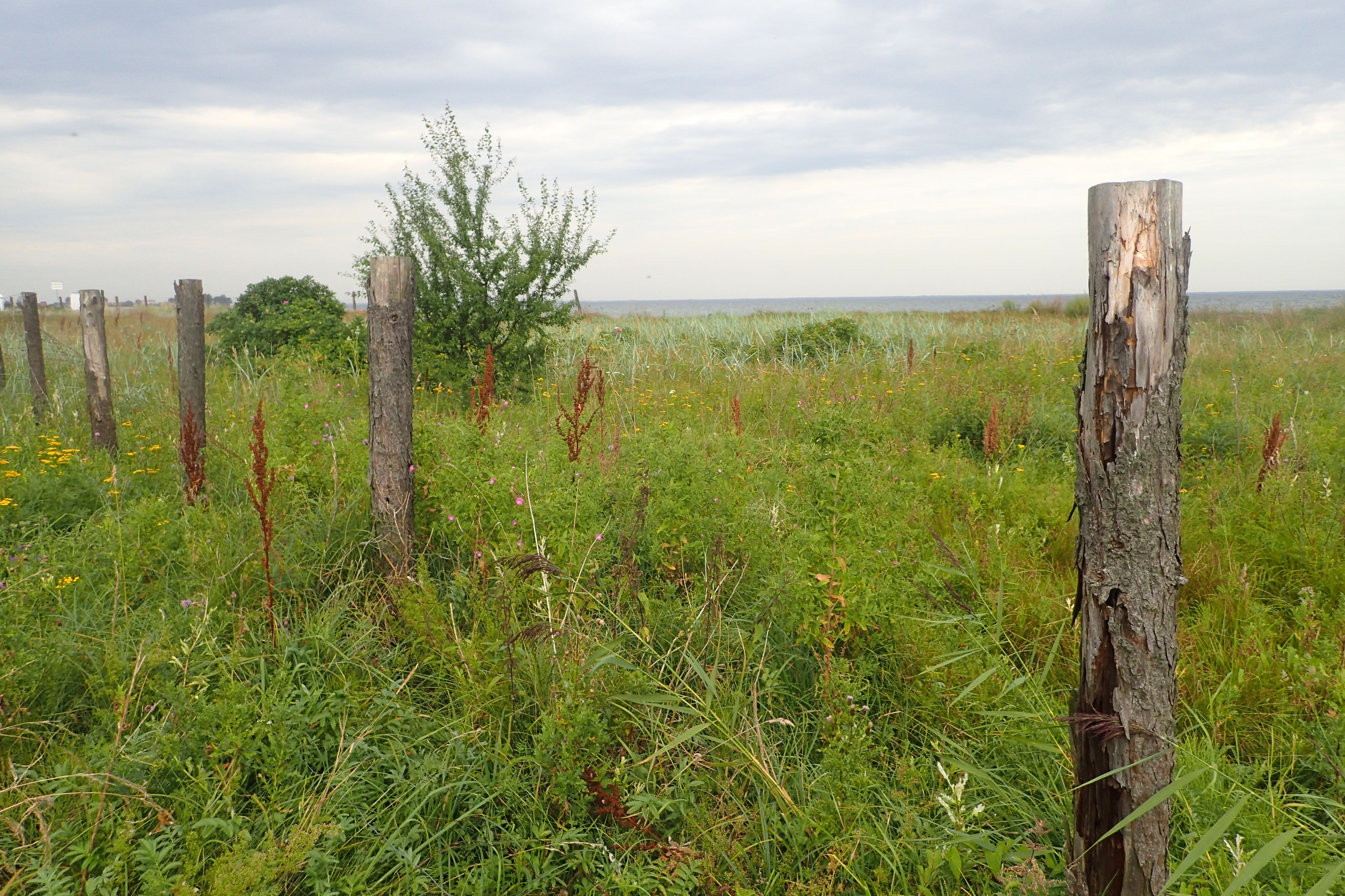 Eryngium maritimum in Mechelińskie Łąki Nature Reserve near Rewa on Baltic See. Part od dune area on which Eryngium was protected from trumpling by fence - in result of plant succession there is no Eryngium (which still grows on trumpled dunes)